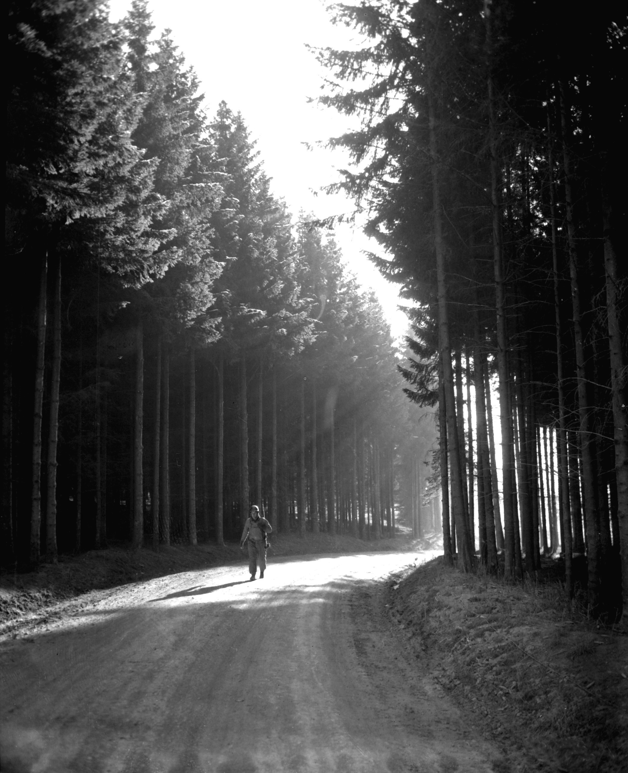 Pfc. Margerum, Philadelphia, Pa, walks the road through a peaceful forest in the Bastogne area, as he returns from the front lines. Belgium or Luxembourg. December 27, 1944. Pfc. Donald R. Ornitz. (Army) NARA FILE #: 111-SC-199296 WAR & CONFLICT BOOK #: 1076